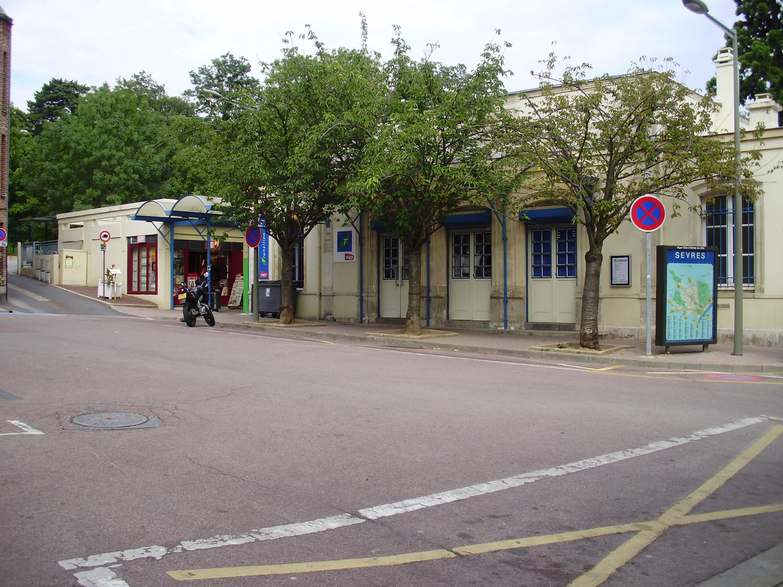 Sèvres - Ville-d'Avray station, in Sèvres, Hauts-de-Seine, France (entrance Place Pierre-Brossolette)